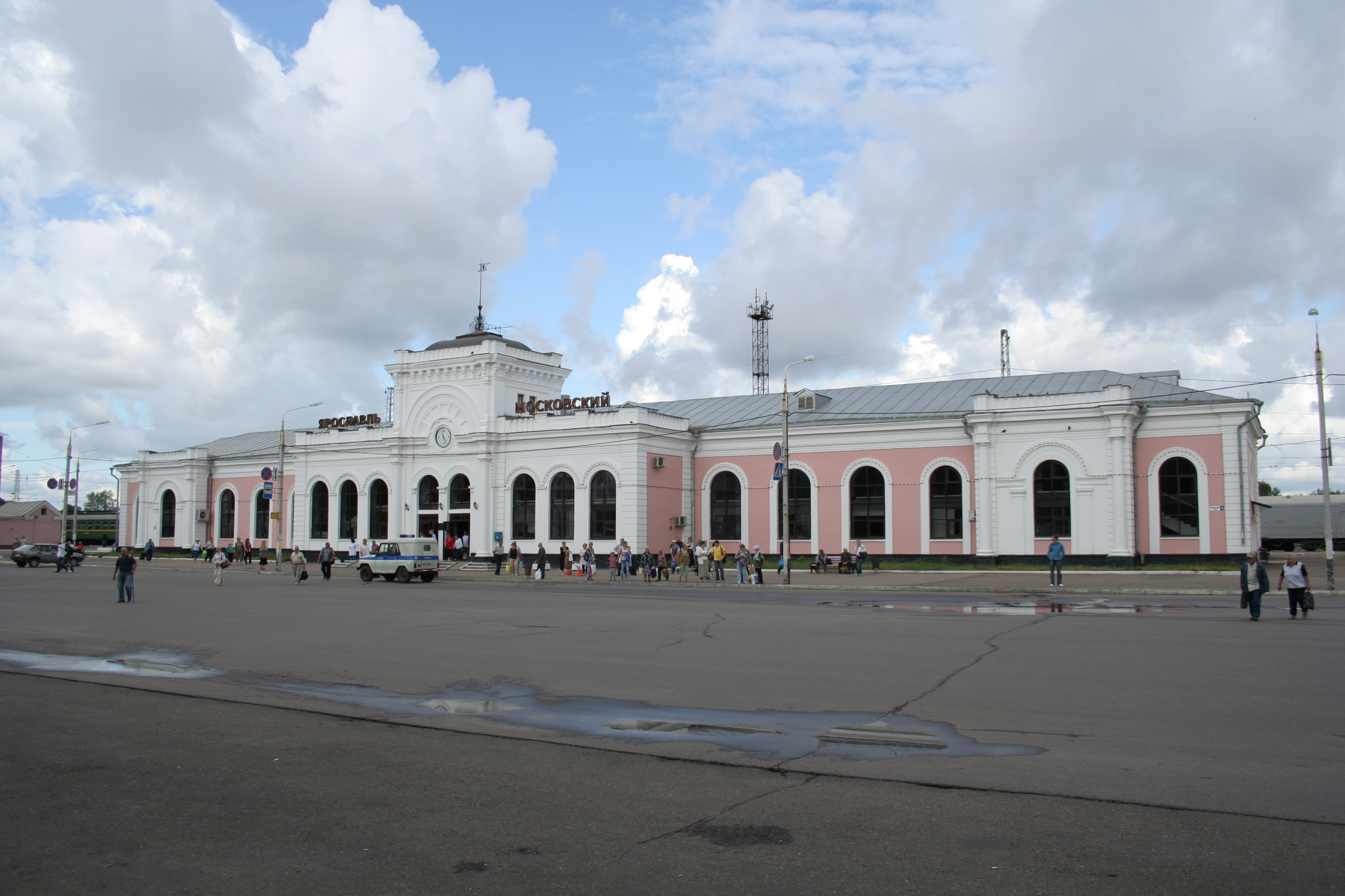 Railway terminal Yaroslavl-Moskovskiy, Russia